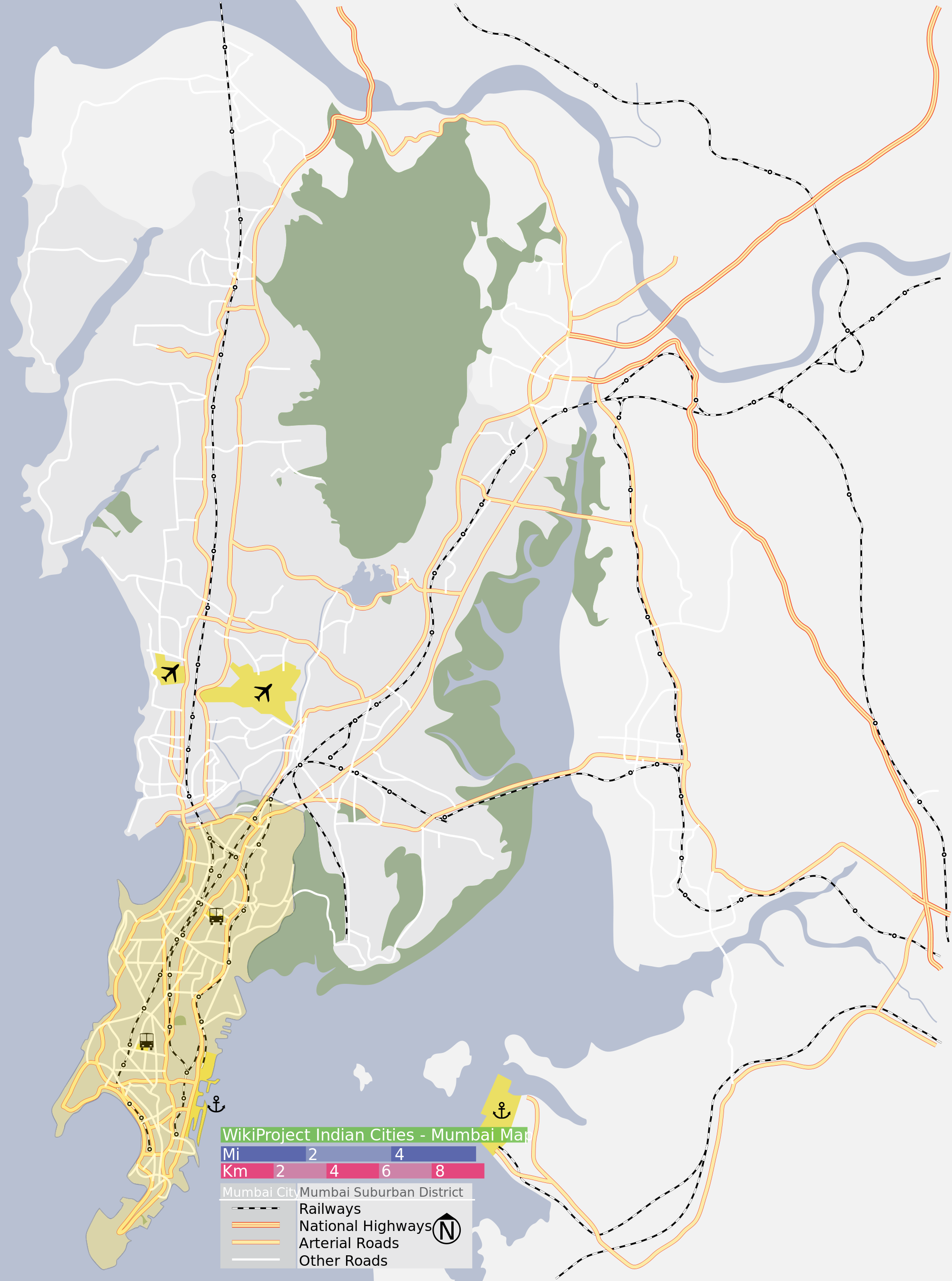 Map of Mumbai shaded to indicate South Mumbai